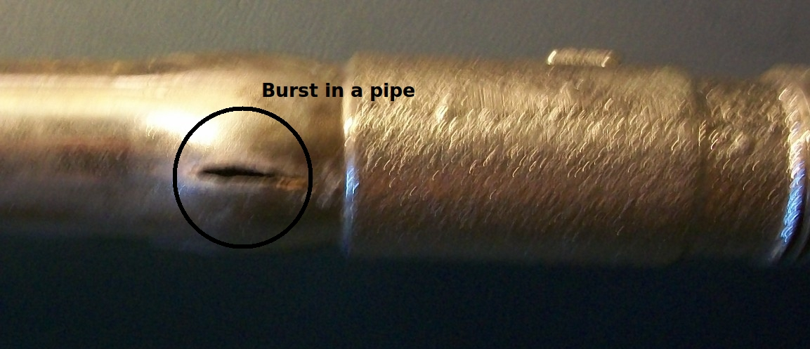 This pipe is part of an exterior plumbing valve designed to keep the water inside the house (and away from the exterior spigot) to prevent rupture from freezing. It burst anyway. The crack where water escaped is inside the black circle.